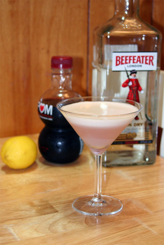 A Clover Club Cocktail made with Gin Lemon Juice and Grenadine.